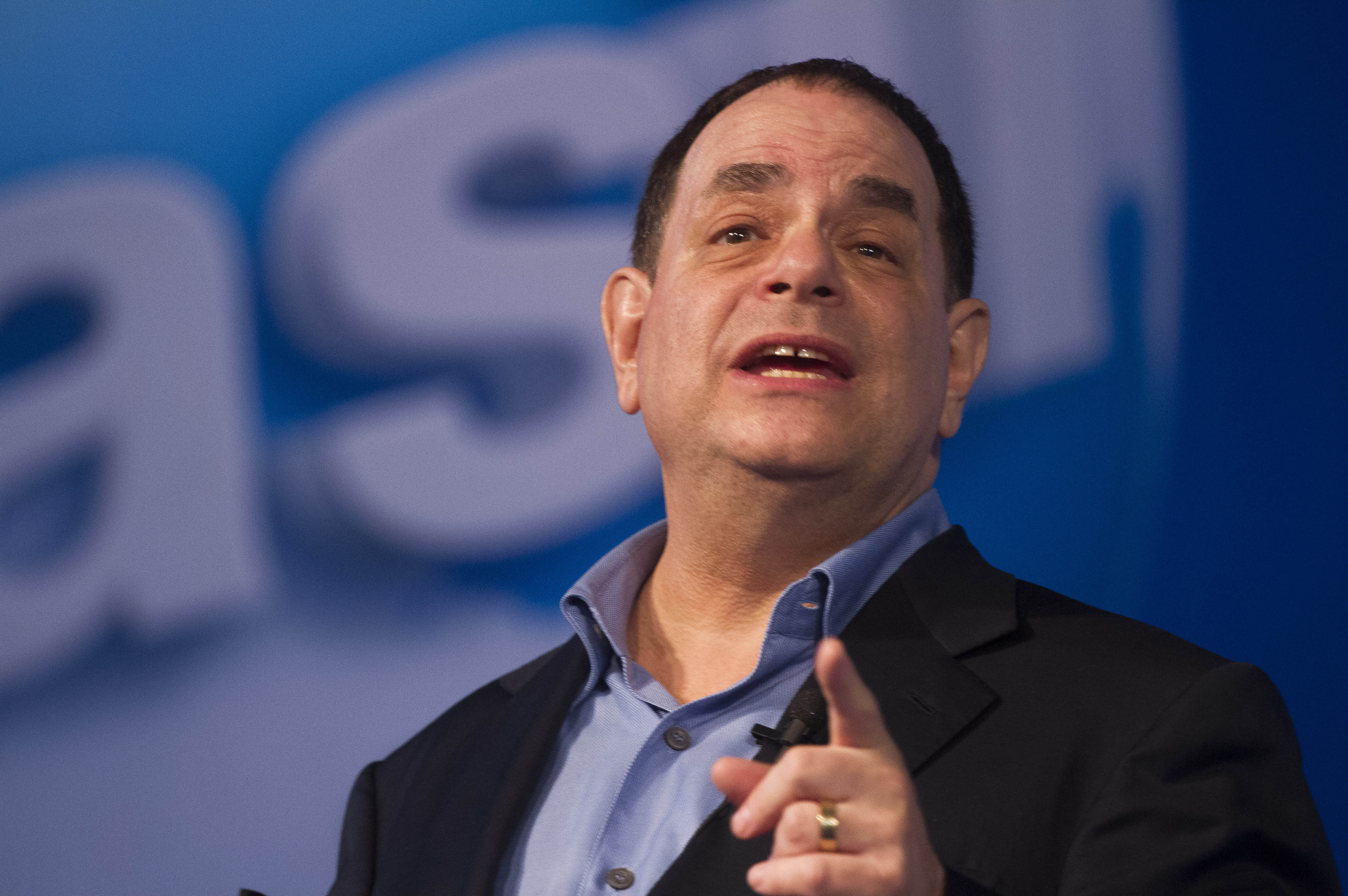 Marc Prensky - Campus Party Brasil 2013, 29/01/2013 - Foto: Cristiano Sant'Anna/indicefoto